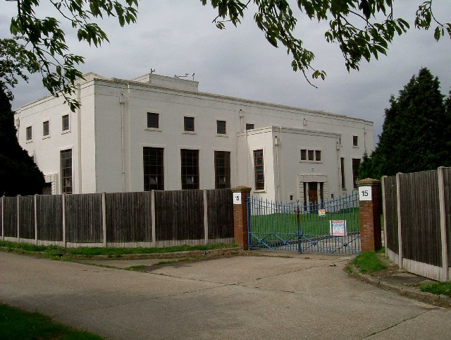 Pumping Station. A typical piece of 1930's architecture, the pump house for Abberton Reservoir.